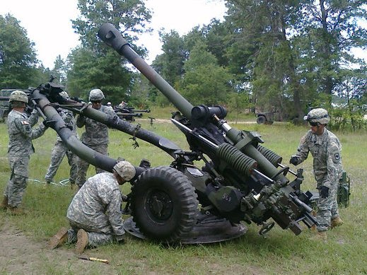 1st Battalion, 206th Field Artillery conducts New Equipment Training (NET) on the M119A2 Howitzer at Camp Grayling Michigan